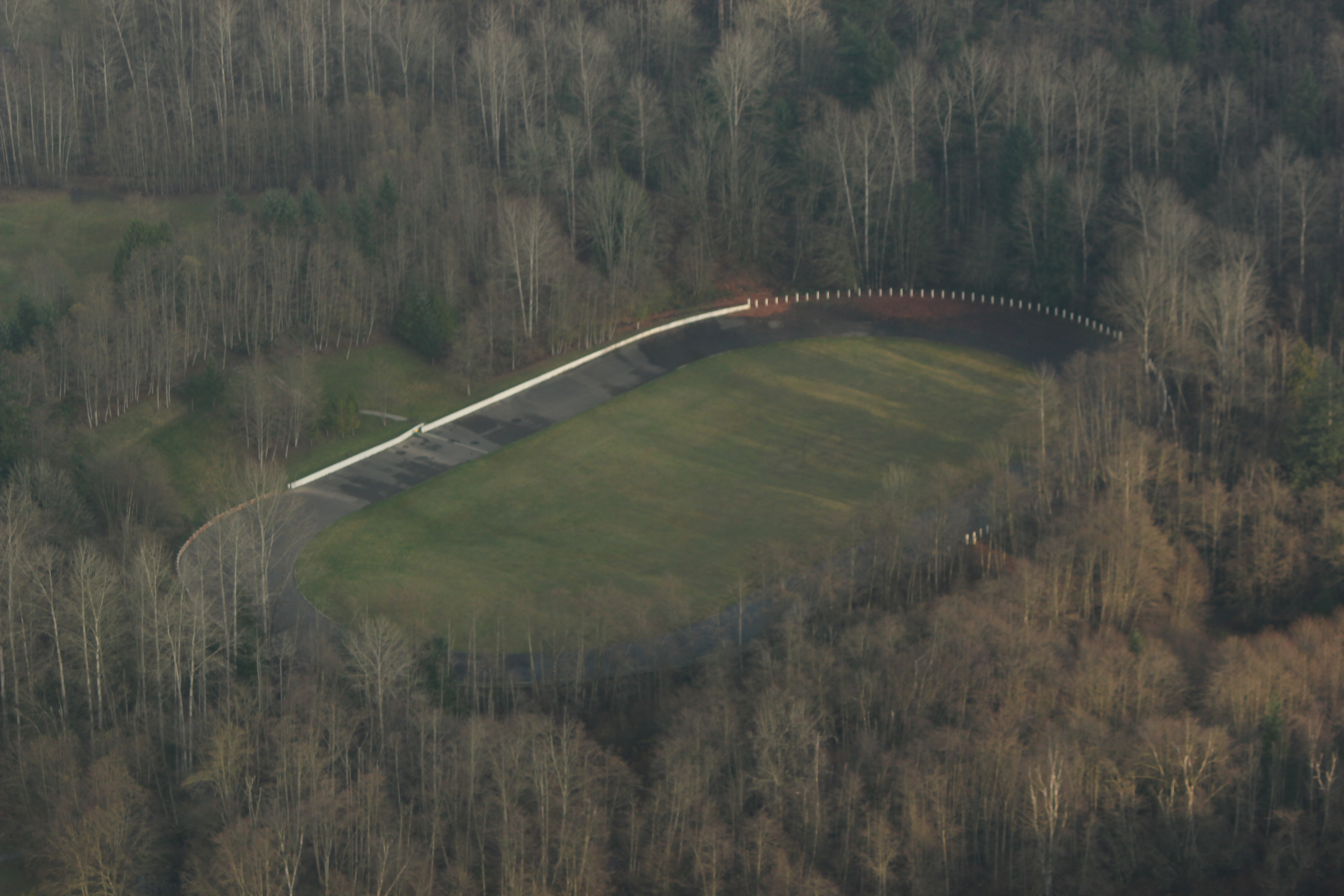 Historical Langley Speedway in Campbell Valley Park